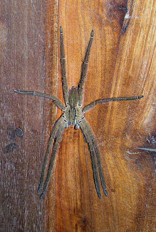 Awaiting by my door in central Nicaragua. In context at